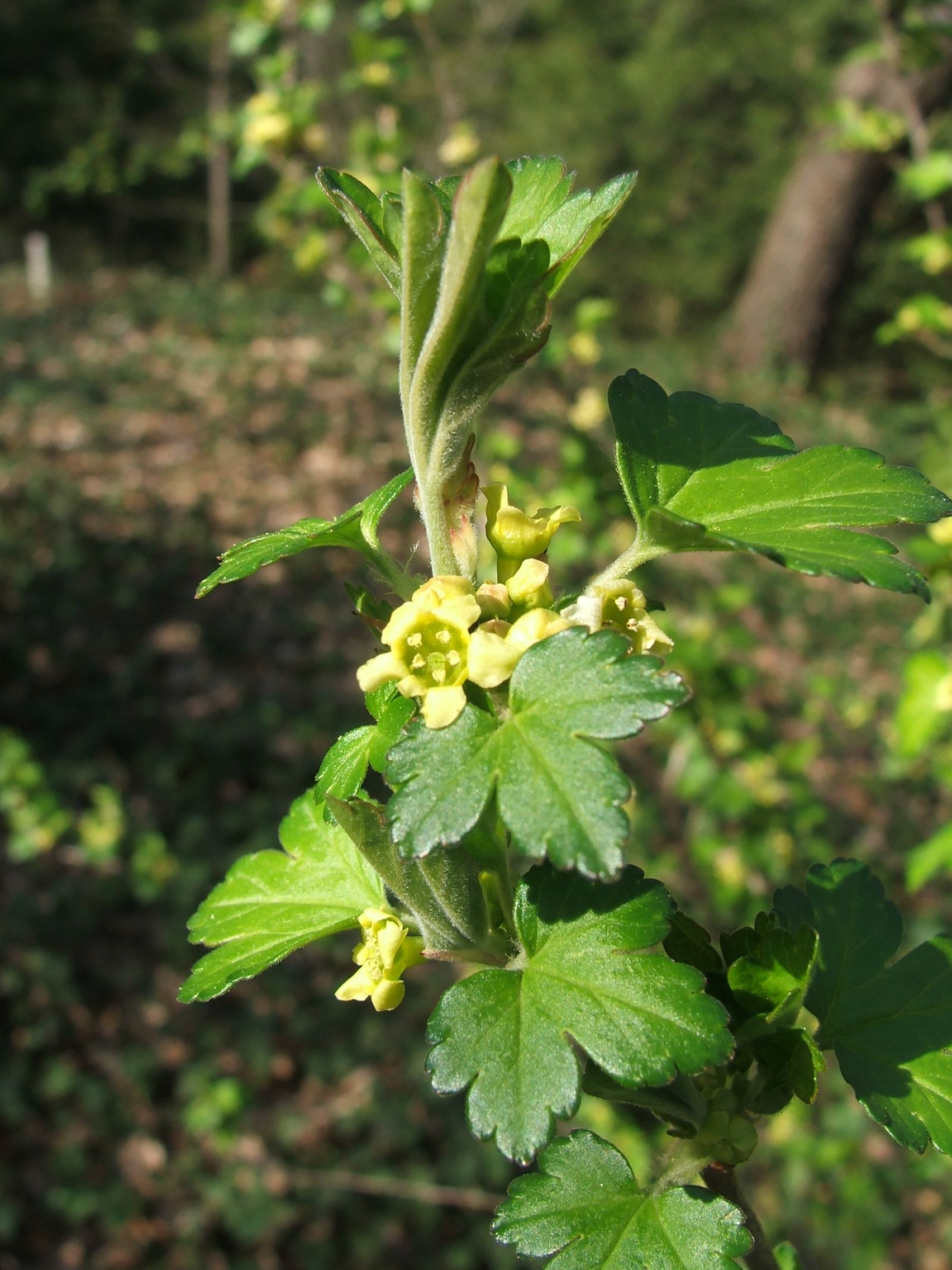 Ribes fasciculatum var. chinense - MTA Botanic Garden, Hungary